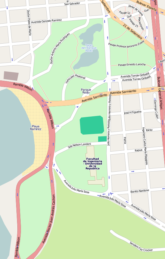 Map of Parque Rodo, Montevideo, Urugay